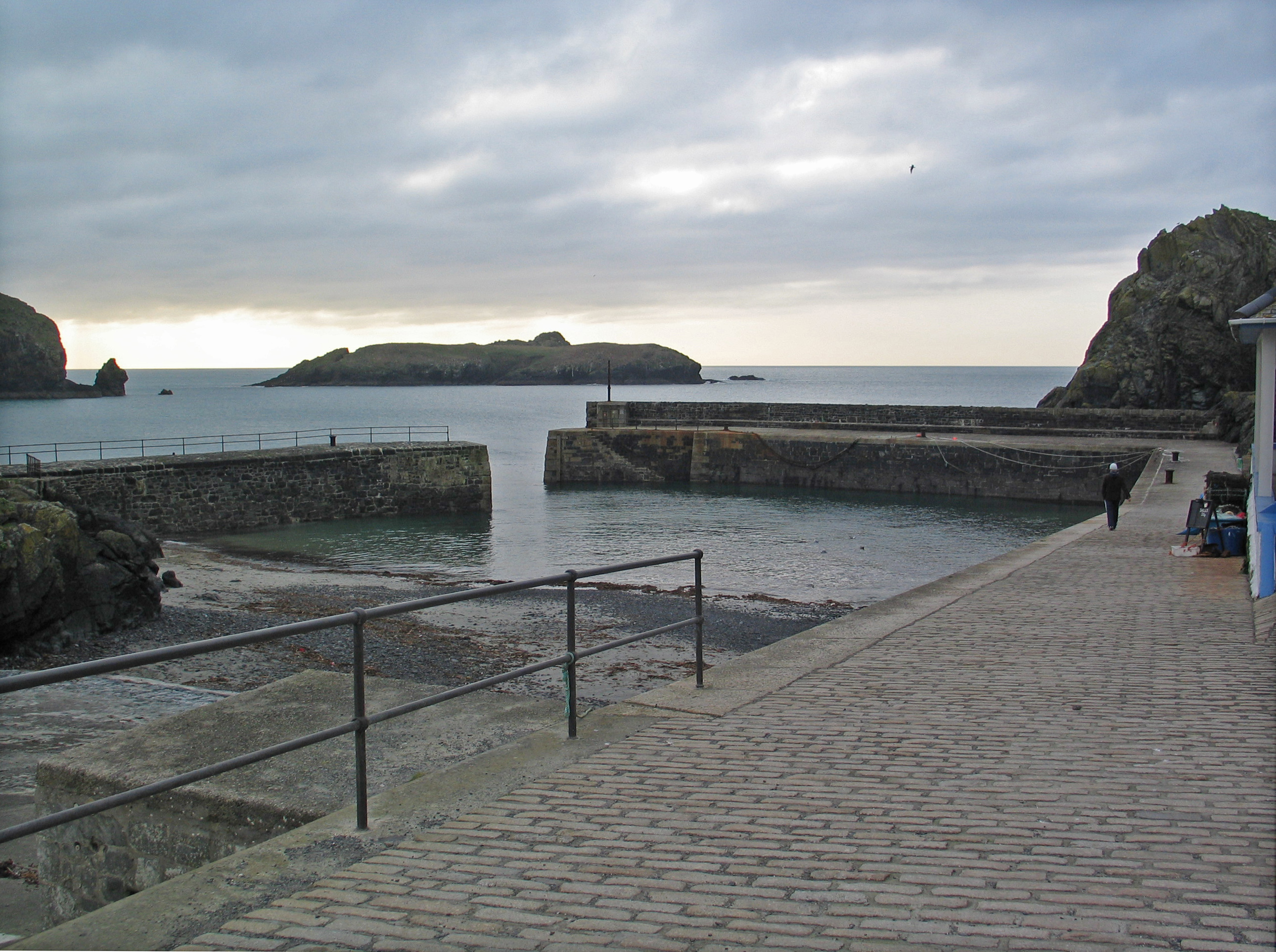 View of Mullion island, Mullion, Cornwall, UK taken from the harbour. Taken April 2007 using a Canon Powershot G5 Taken by and uploaded by TrevelyanD